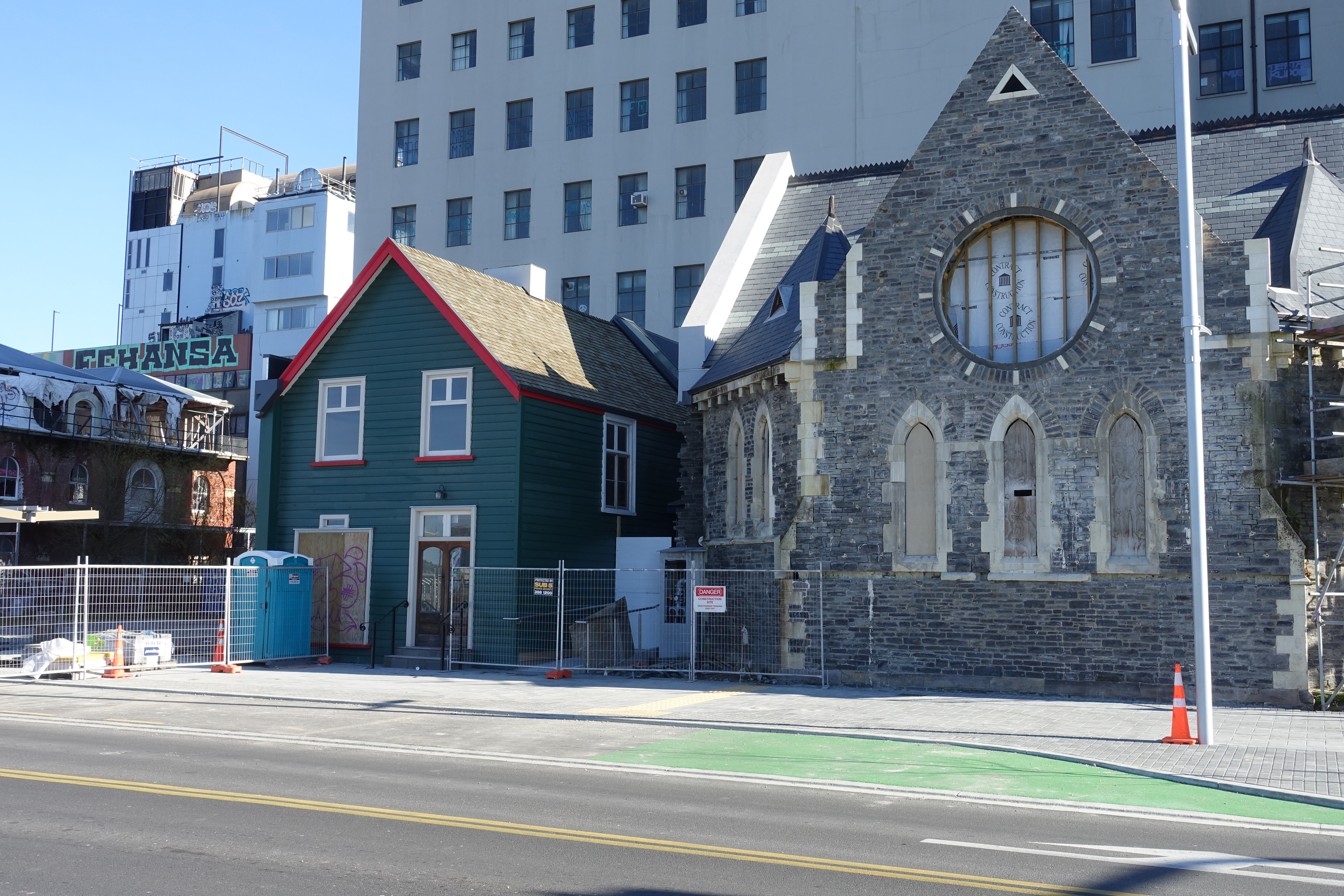 Trinity Congregational Church in Christchurch next to Shand's Emporium